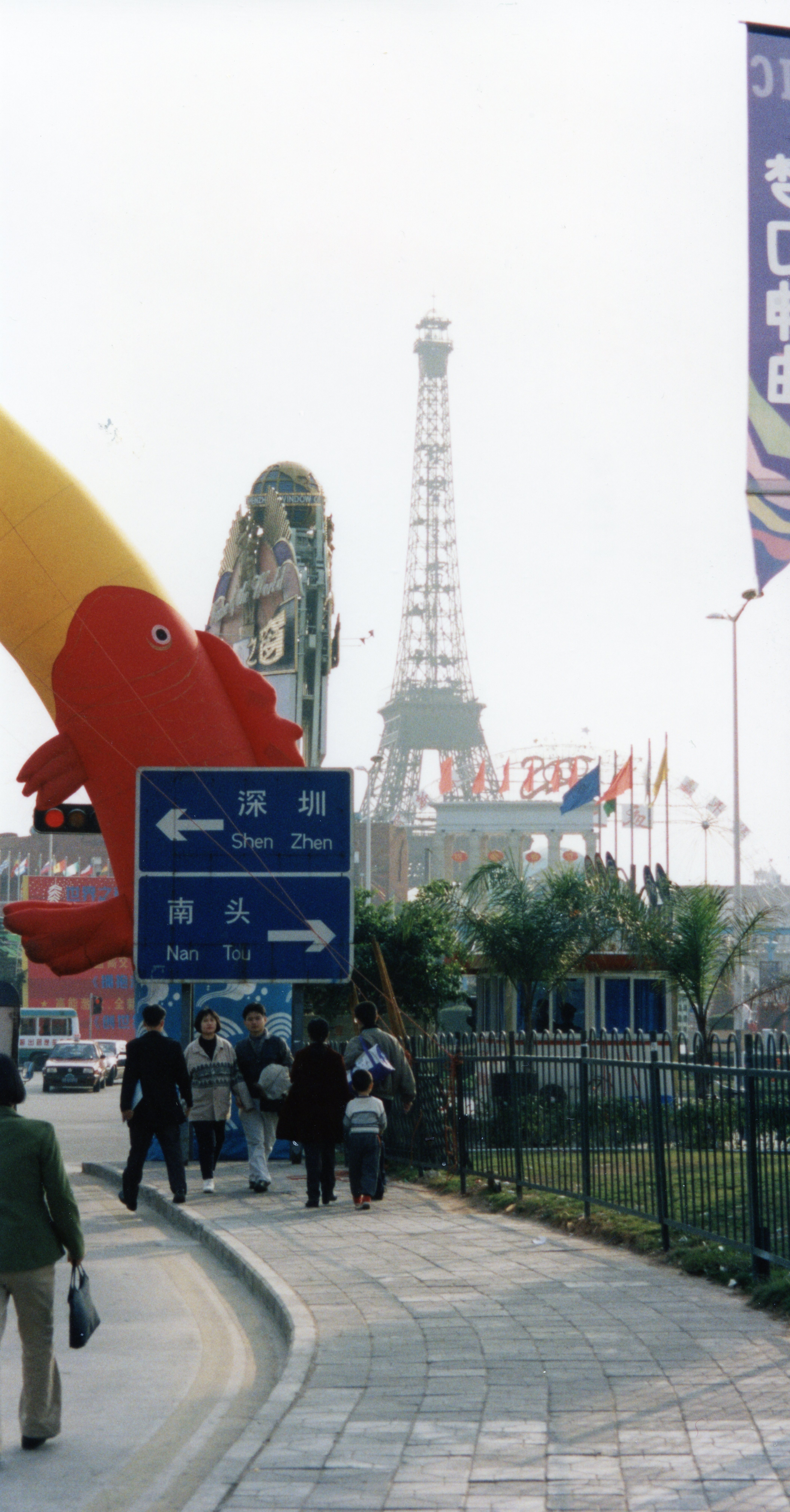 shenzhen, window of the world, china